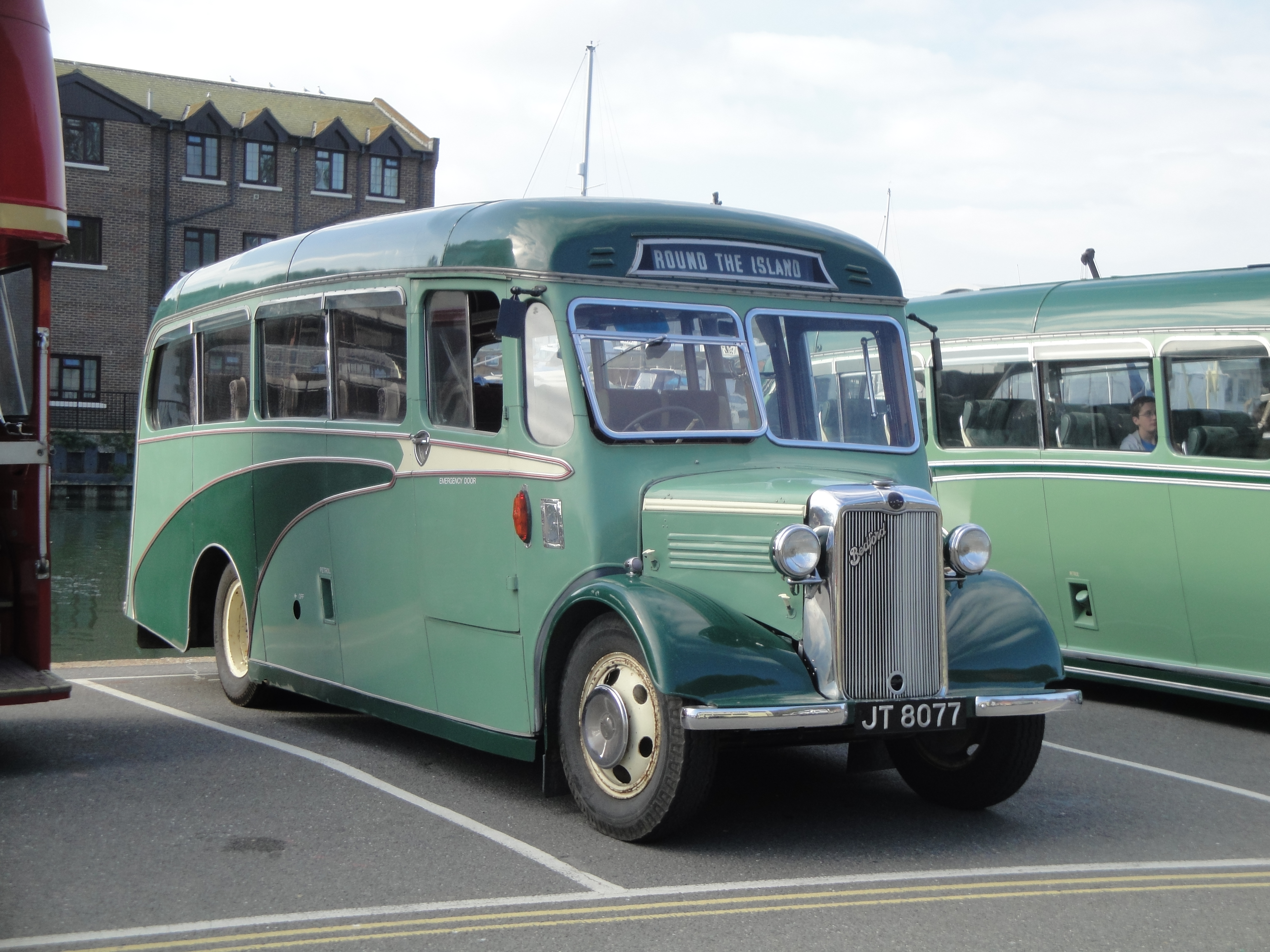 A Bedford WTB/Duple (JT 8077, new in 1937), in Newport Quay, Newport, Isle of Wight for the Isle of Wight Bus Museum's October 2011 running day.